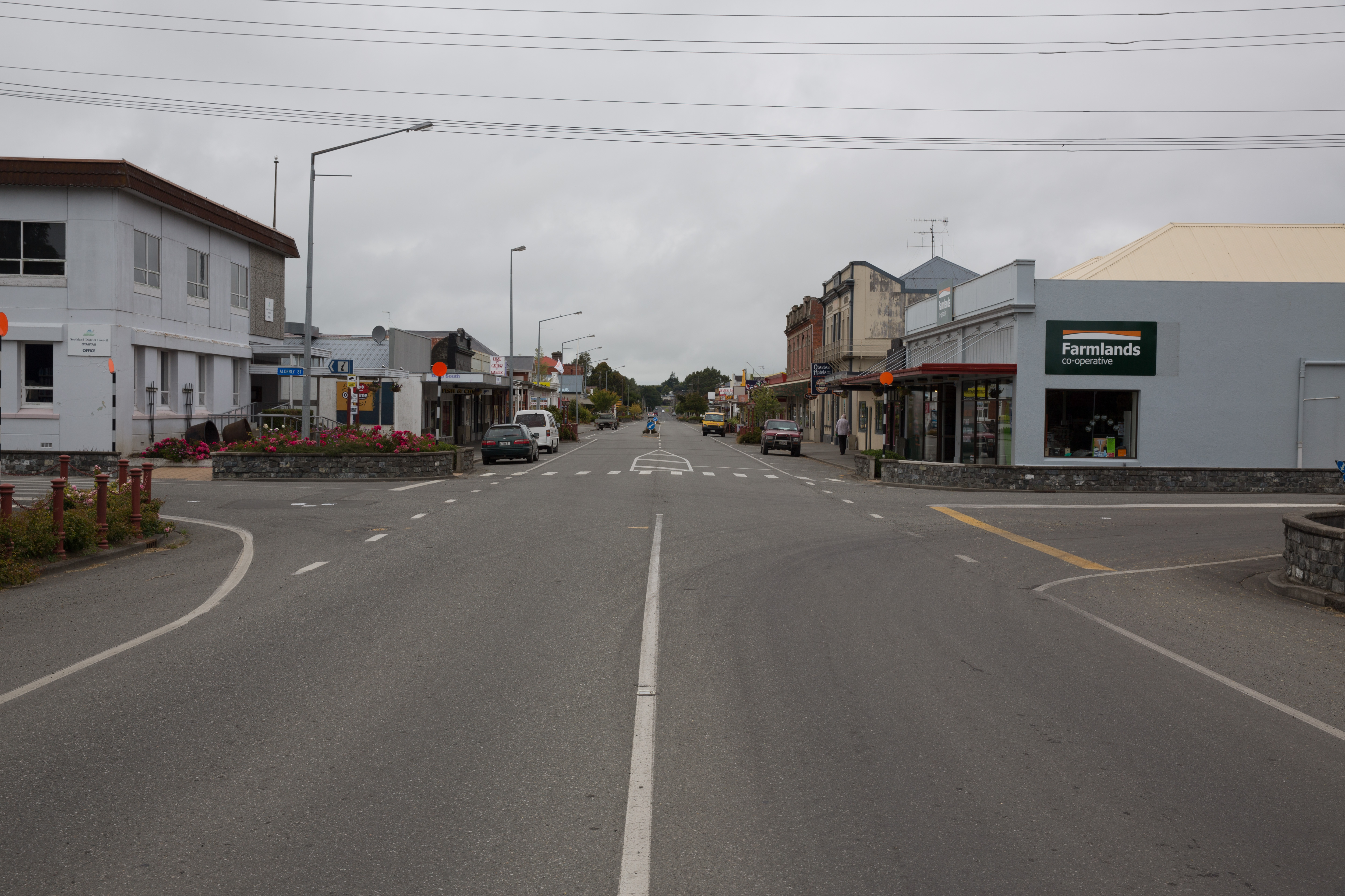 Main street of Otautau in the Southland District of New Zealand